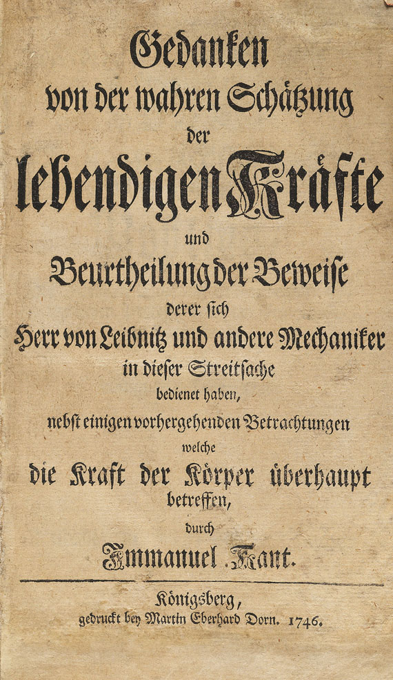 Front cover of Thoughts on the True Estimation of Living Forces (German edition)